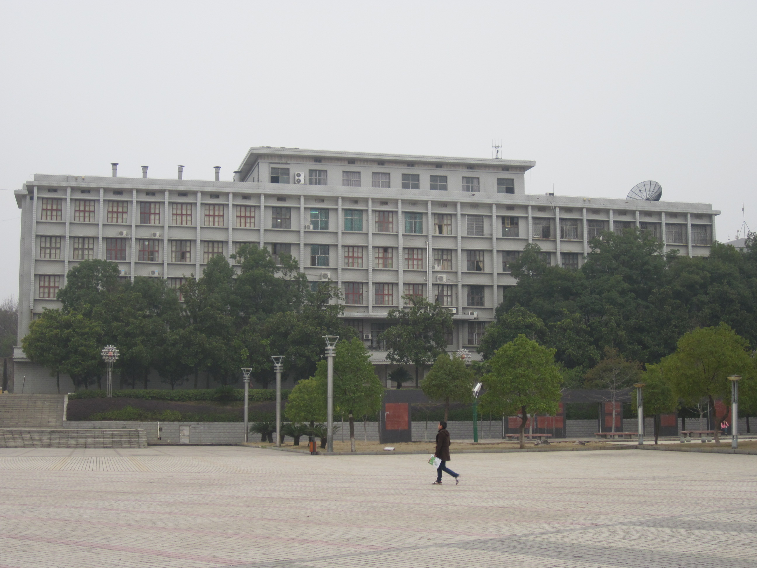 Hunan University of Humanities, Science and Technology （simplified